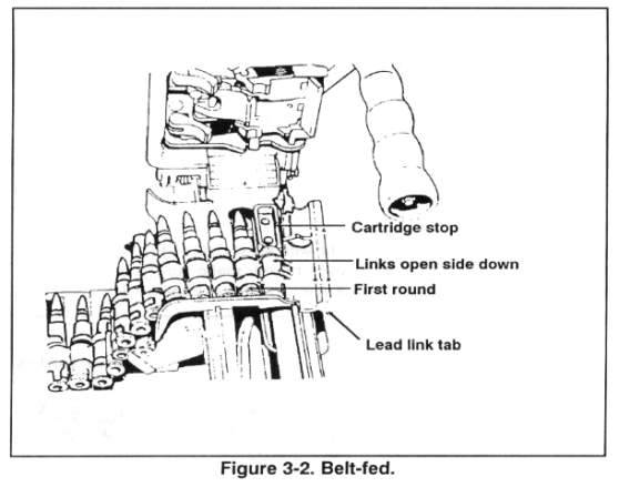 A diagram from an army training manual of a belt-fed machine gun.